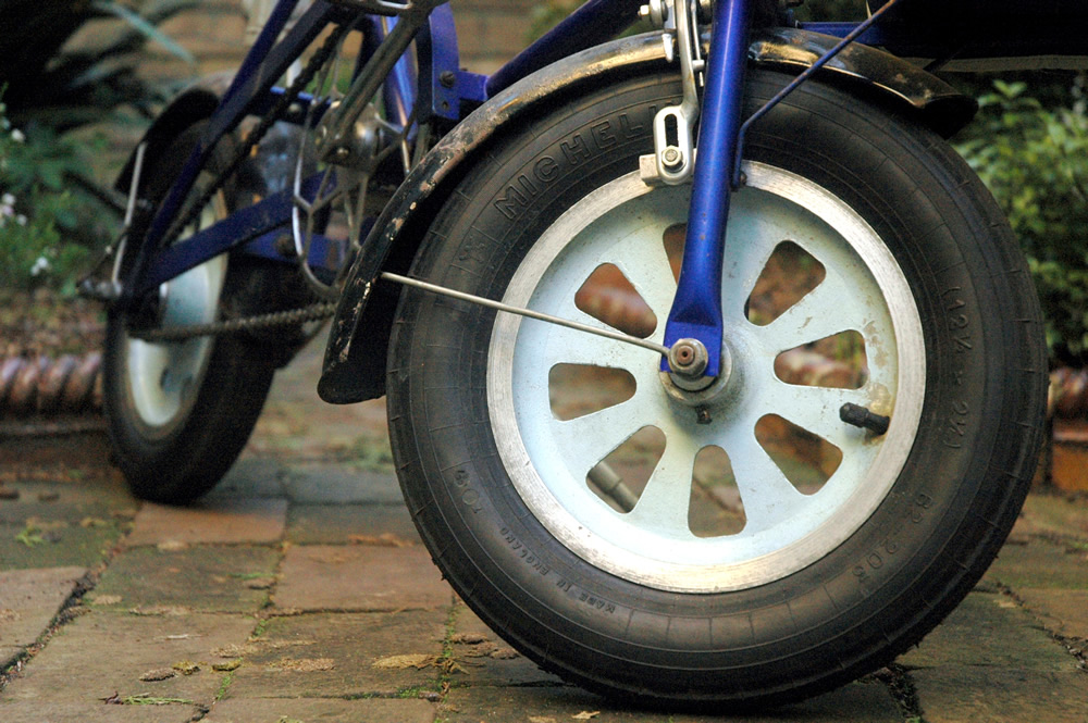 Cast alloy front wheel of Bootie Folding Cycle showing original spec Michelin balloon tyre 62 x 203